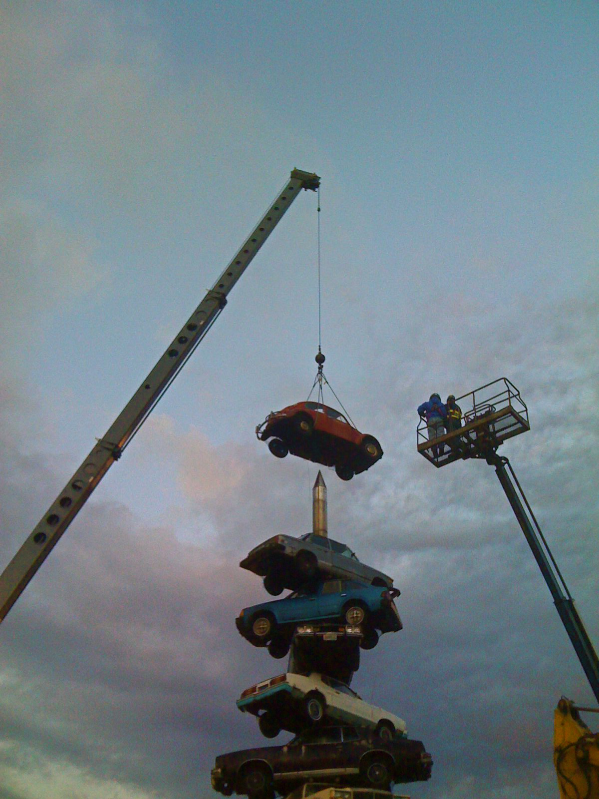 Disassembly of The Spindle in Berwyn, IL